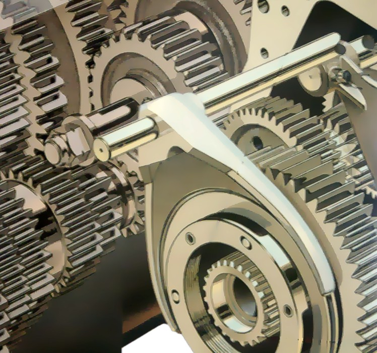 Diagram of a non-synchronous transmission showing gear fork, gear box, and gears that would be used in a commercial motor vehicle